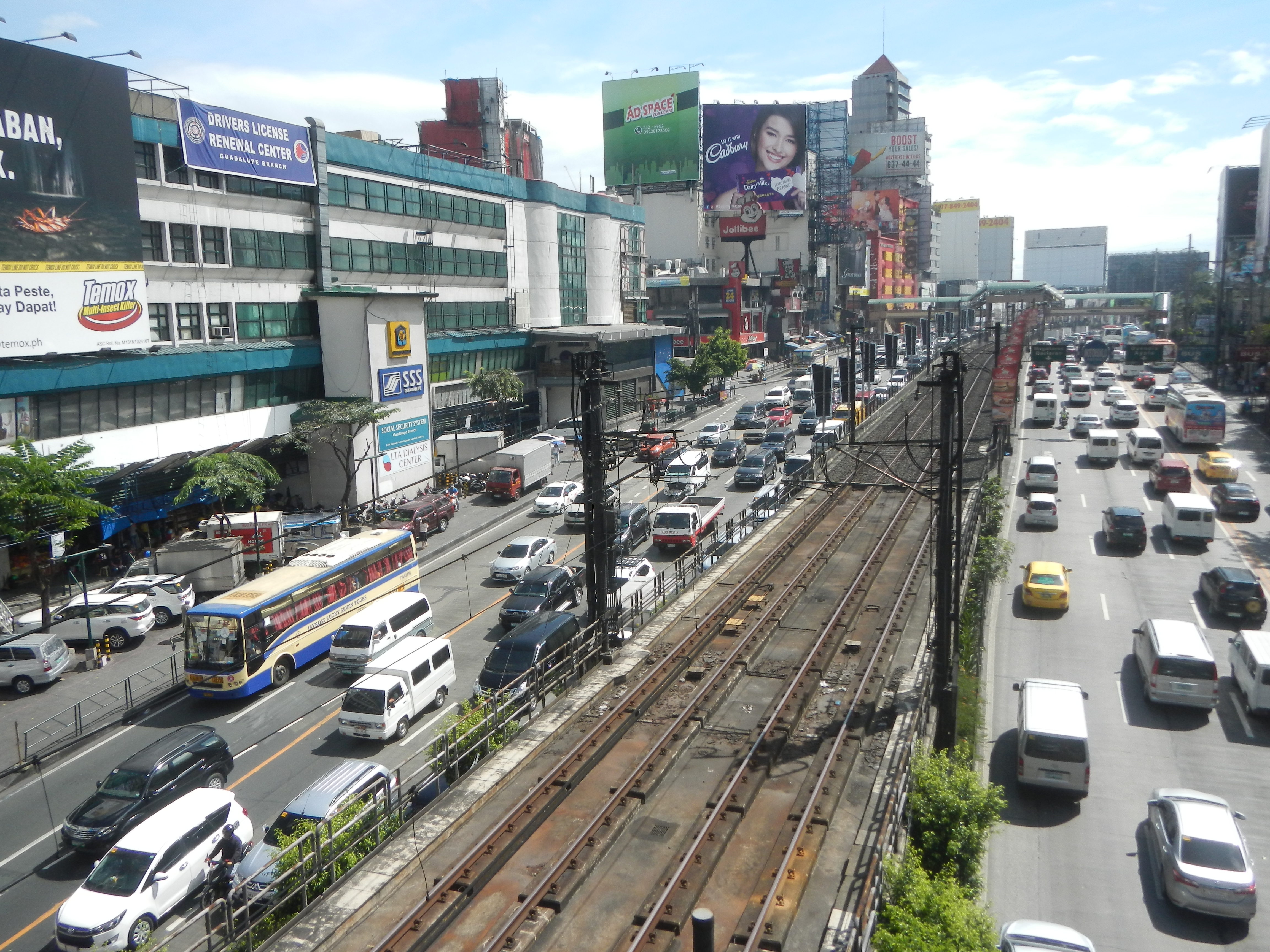 Guadalupe Nuevo-Viejo Bridge, MRT Station - Pasig River (Mandaluyong & Makati City) - J. P. Rizal Avenue (Cembo & West Rembo, Makati City) Guadalupe Cloverleaf Interchange Park (Makati City Boundary Monument, EDSA, Guadalupe Nuevo, J. P. Rizal Extension, Pasig River, Mandaluyong City) Sgt. Fabian Yabut Circle, towards the Pasig River Park (Baywalk, Buayang Bato, Mandaluyong City - J. P. Rizal Extension, Cembo - West & East Rembo, Makati City) List of rivers and estuaries in Metro Manila Pasig River (Makati-Mandaluyong City section) Guadalupe MRT Station Guadalupe Bridge (Makati-Mandaluyong Bridge) Metro Manila Road Network EDSA (road) Epifanio de los Santos Avenue Highway 54, List of roads in Metro Manila, Epifanio de los Santos Avenue (EDSA, Makati City - Pasay City section) (List of crossings of the Pasig River J.P. Rizal Avenue J. P. Rizal Extension, District II, Makati City 14°33'46"N 121°3'34"E J. P. Rizal Street 14°34'18"N 121°0'57"E District II, Guadalupe Cloverleaf 14°34'2"N 121°2'43"E Amphithetre 14°34'1"N 121°2'45"E Interchange 14°34'2"N 121°2'44"E List of barangays of Metro Manila, Legislative districts of Makati, Barangays Guadalupe Nuevo 14°33'46"N 121°2'43"E Cembo 14°33'54"N 121°3'2"E West Rembo 14°33'40"N 121°3'36"E East Rembo 14°33'11"N 121°3'42"E Makati in front of List of barangays of Metro Manila, Barangay Barangka Ilaya 14°34'21"N 121°3'2"E Mandaluyong City (Note: Judge Florentino Floro, the owner, to repeat, Donor Florentino Floro of all these photos hereby donate gratuitously, freely and unconditionally all these photos to and for Wikimedia Commons, exclusively, for public use of the public domain, and again without any condition whatsoever).